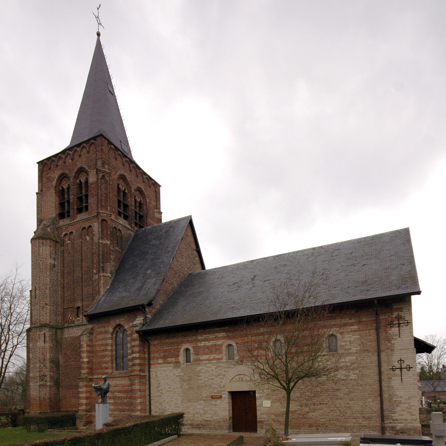 Old Willibrordus church, Waalre, NL